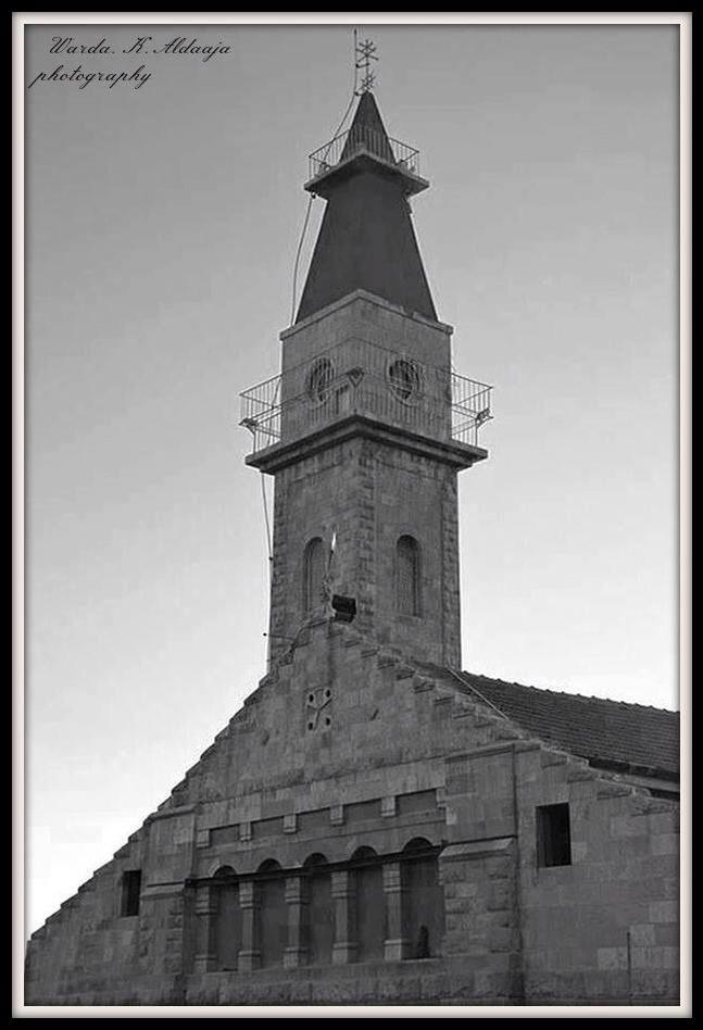 Madaba Church